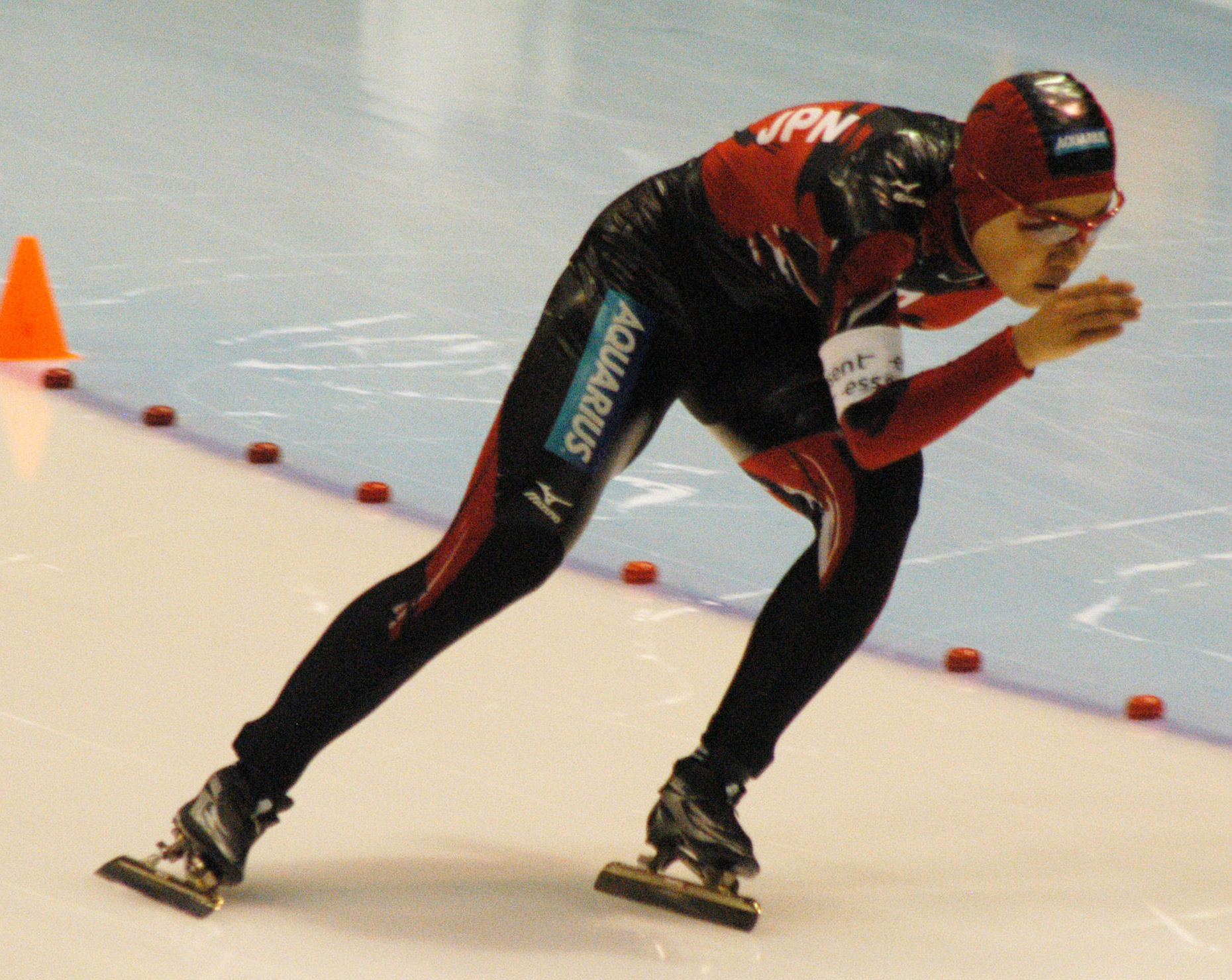 Hiromi Otsu (JPN) in action at a world cup speedskating in Heerenveen, the Netherlands.